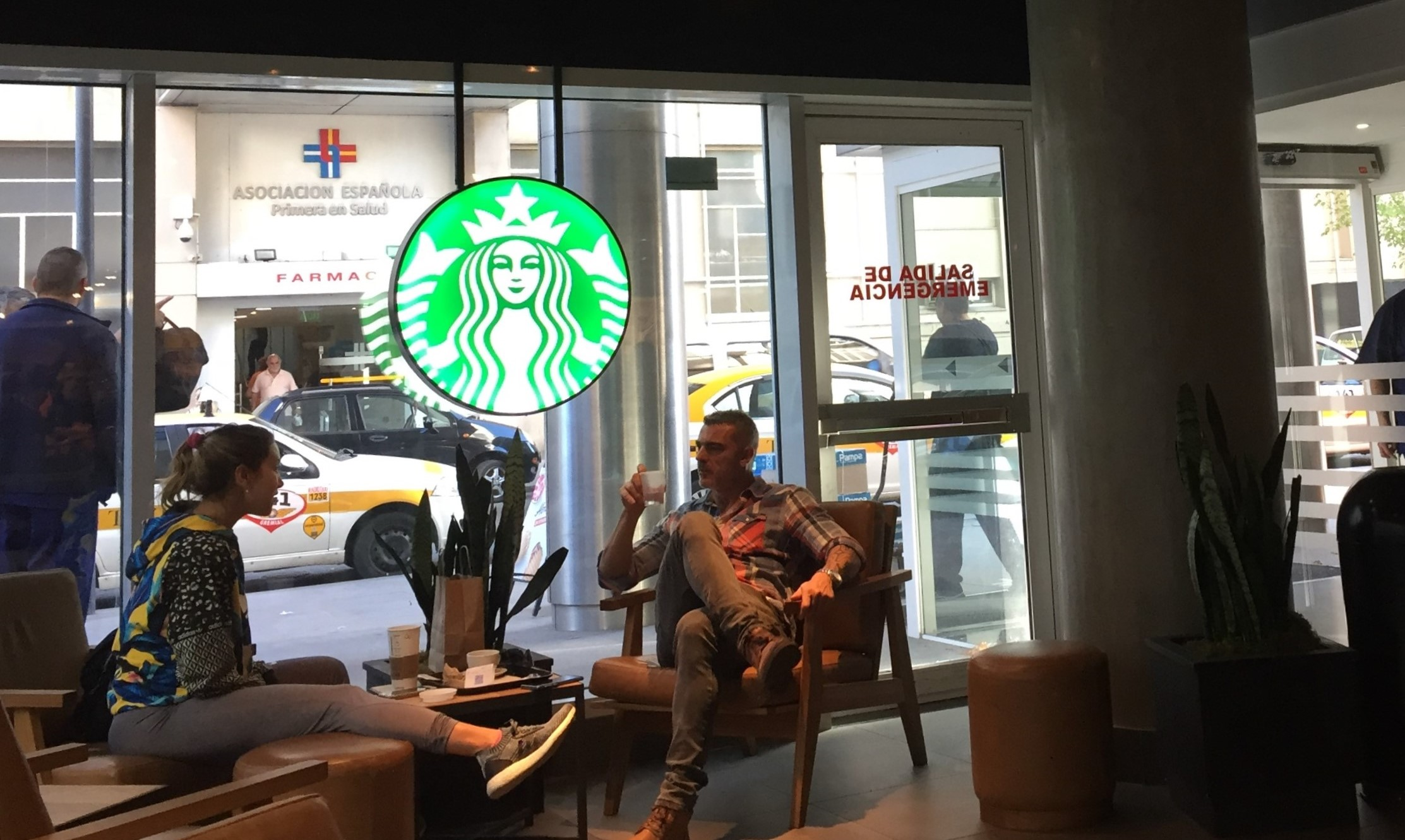 Starbucks in a Uruguayan sanatorium.